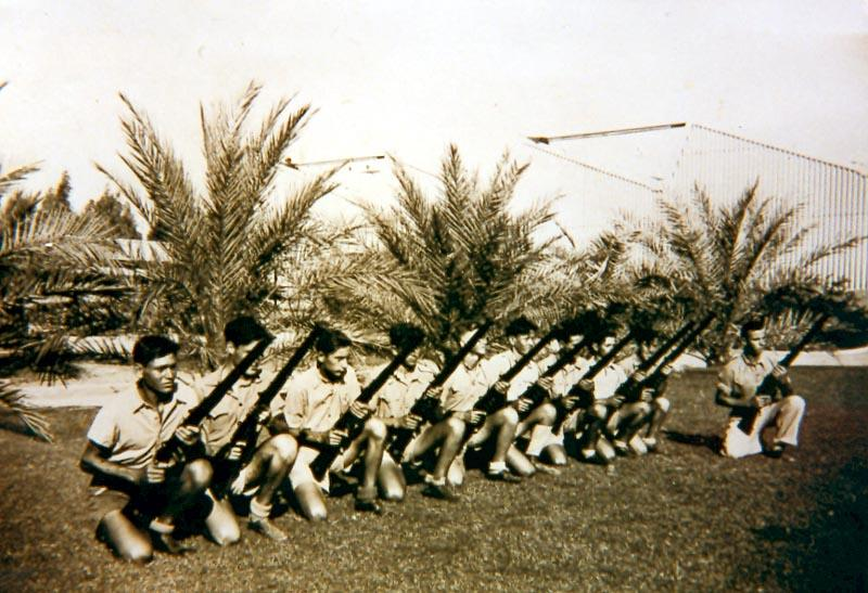 Israel Defense Forces